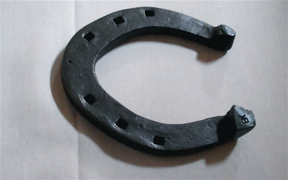 A custom-made horseshoe of a design historically used for certain harness horses, shoe has different heel calks n the inside and outside of the shoe.